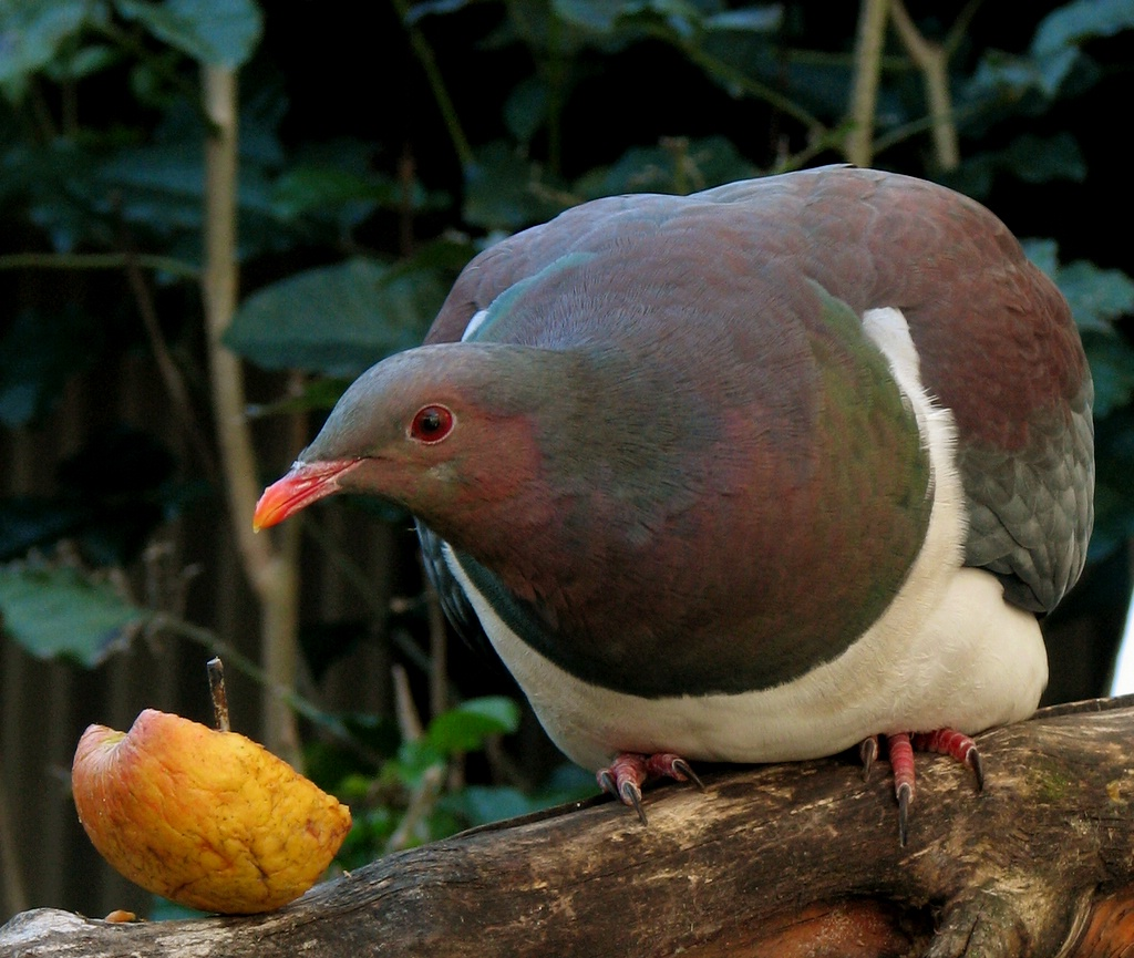 Kereru Hemiphaga novaeseelandiae (New Zealand native pigeon) at the Nga Manu Nature Reserve. New Zealanders often call them wood pigeons, but they're not. They grow to about 51cm long, and weigh about 650 gm.Māori: Kereru